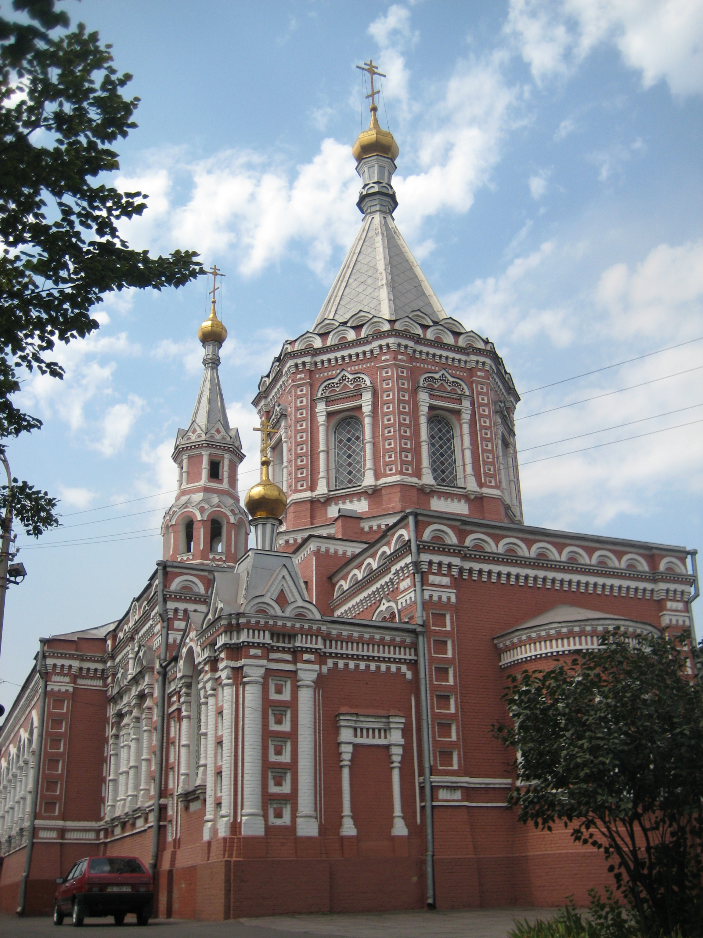 Orthodox Church of Saint Nicholas, Dniprodzerzhynsk